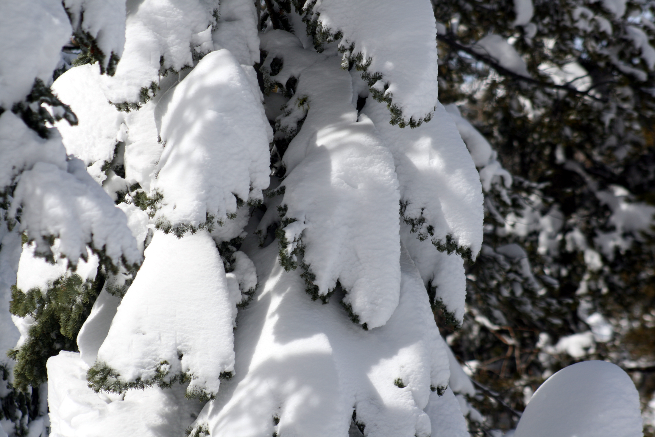 A tree covered with Snow